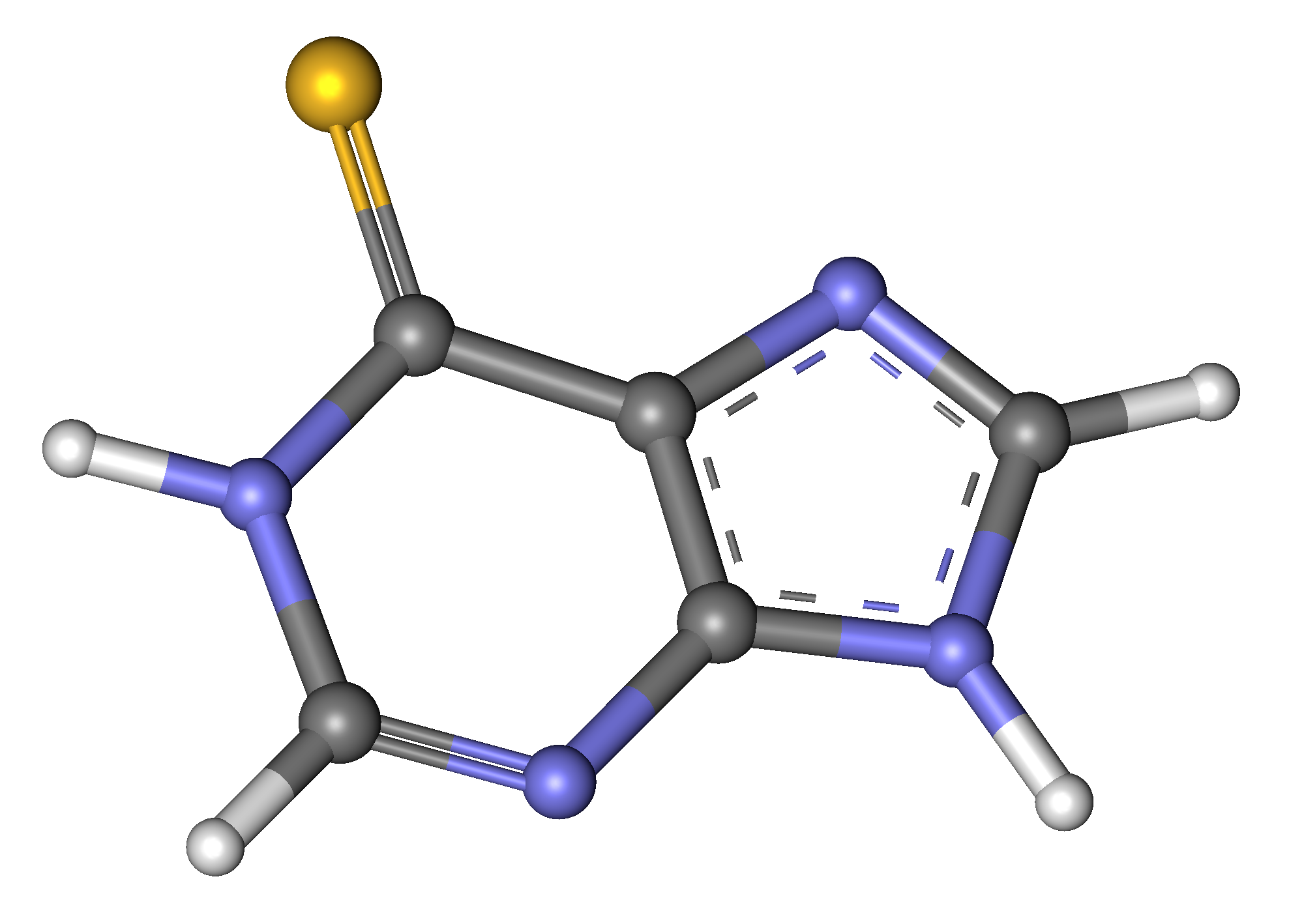 Ball-and-stick model of mercaptopurin molecule. The structure is taken from ChemSpider. ID 580869